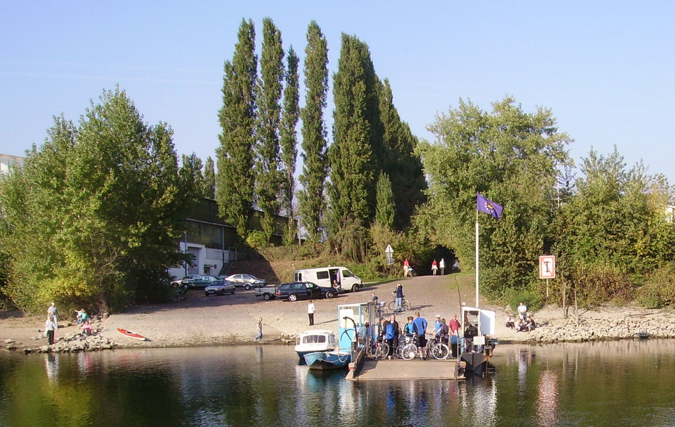 island in Mannheim, Germany